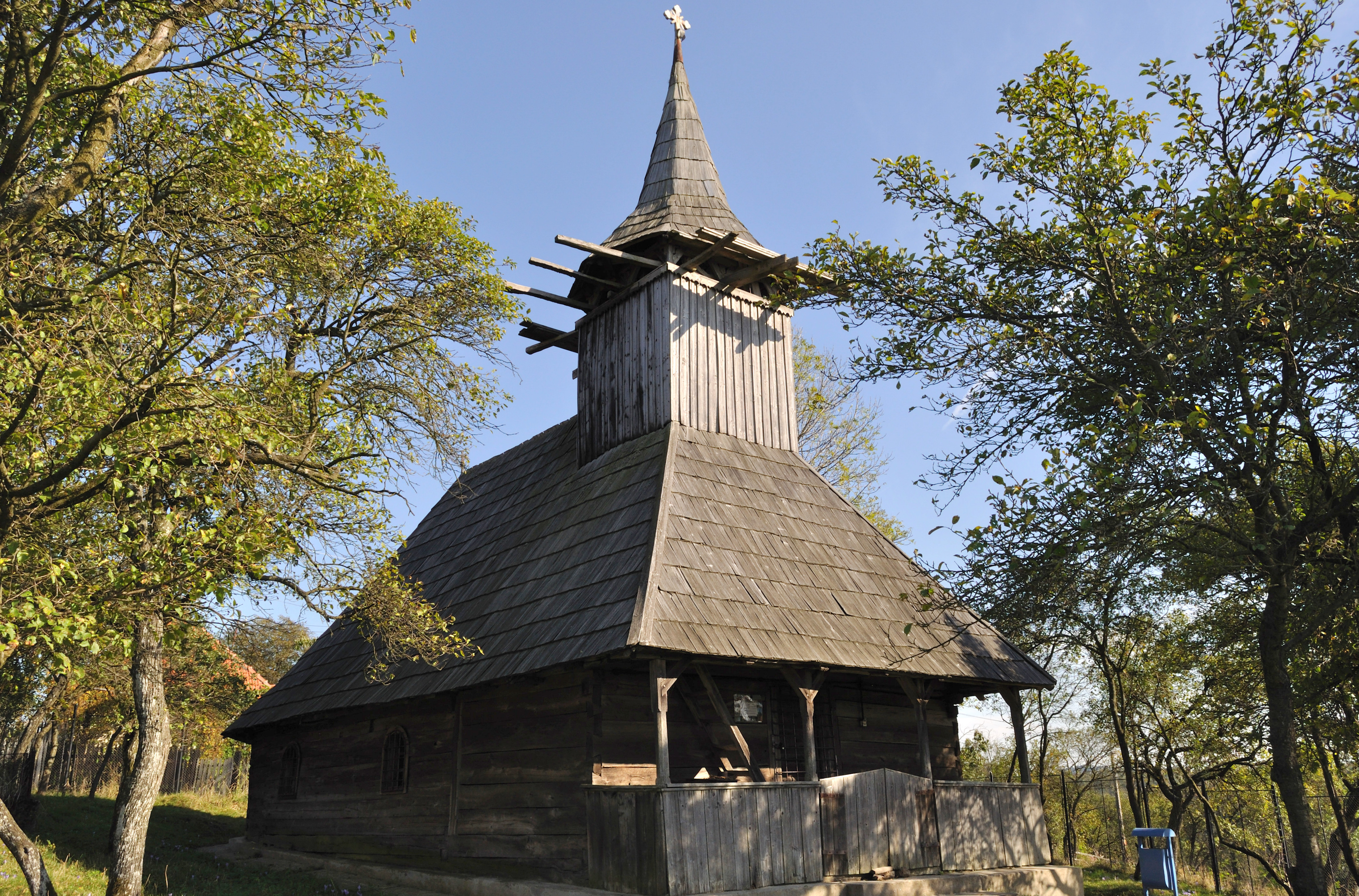 Wooden church in Muncelu Mare , Hunedoara county, Romania